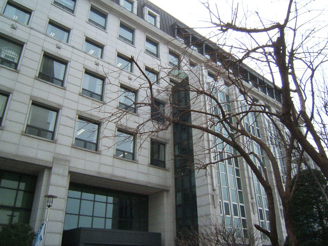 Center for Continuing Education at Sookmyung Women's University. Thare are Lingua Express and Le Cordon Bleu-Sookmyung Academy in the building.